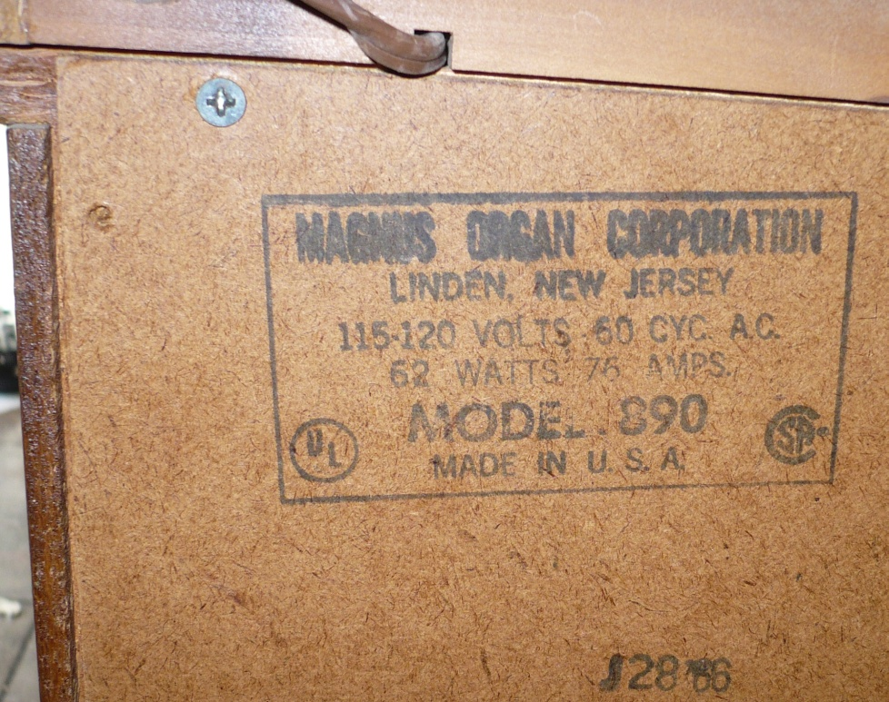 Manufacturer stamp of Magnus 890 electric chord organ. This instrument creates sound by blowing air past reeds. Circa mid 60's